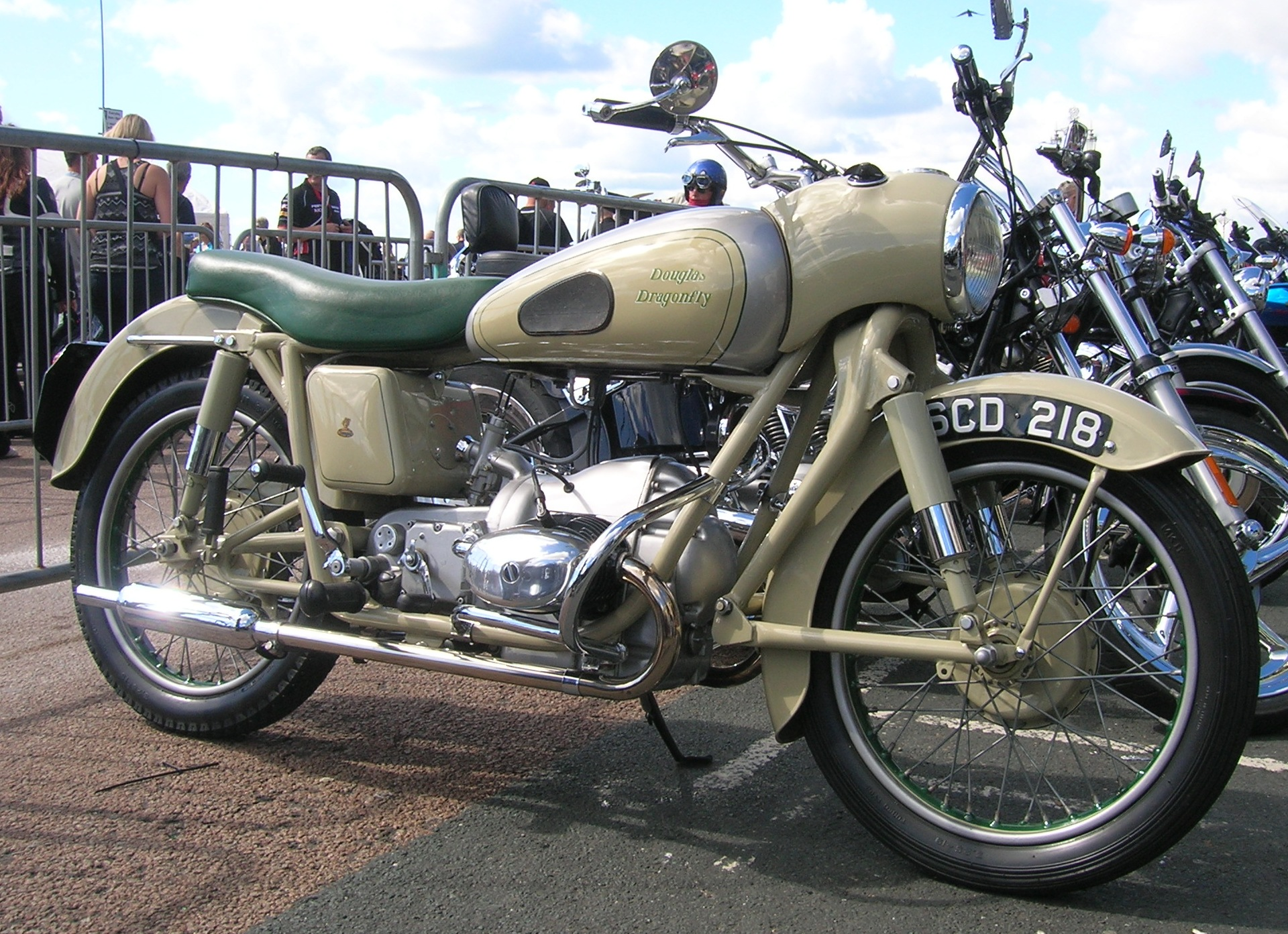 original specification 1950's Douglas Dragonfly 350cc Motorcycle made in Bristol (UK) and photographed in Brighton. Distinctive features include headlamp nacelle flush with the petrol tank, Earles-type front suspension and horizontally-opposed ('flat') twin cylinder engine.